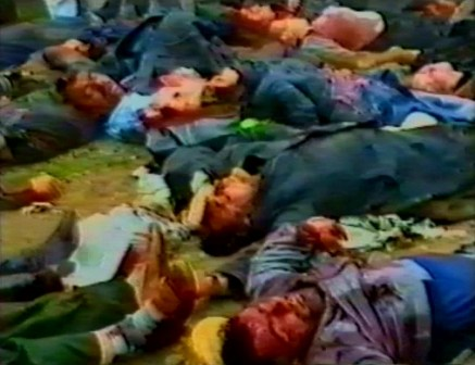 South Ossetian civilians killed by Georgian forces in May, 1992 (Zarskaya Tragedy).